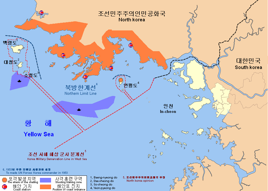 Shelling by North Korea on November 23 2010. Red line is North Korea claimed maritime boundary.